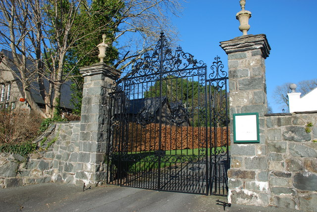 Amgueddfa Lloyd George Museum